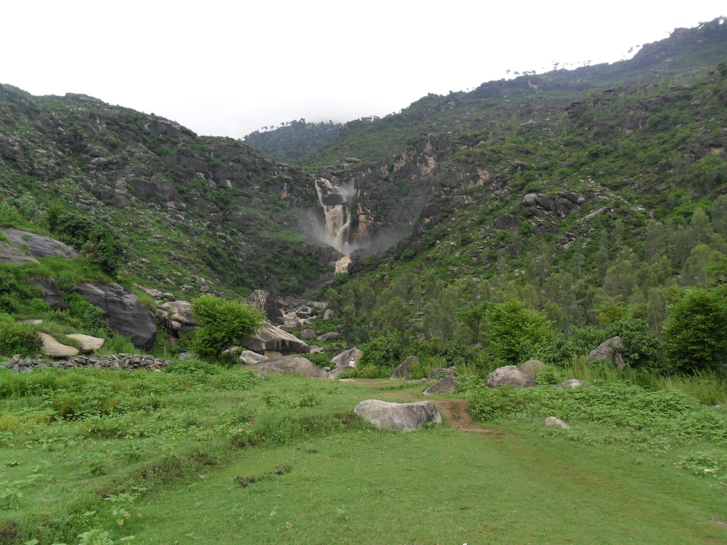 way to this Fountain is very dangerous